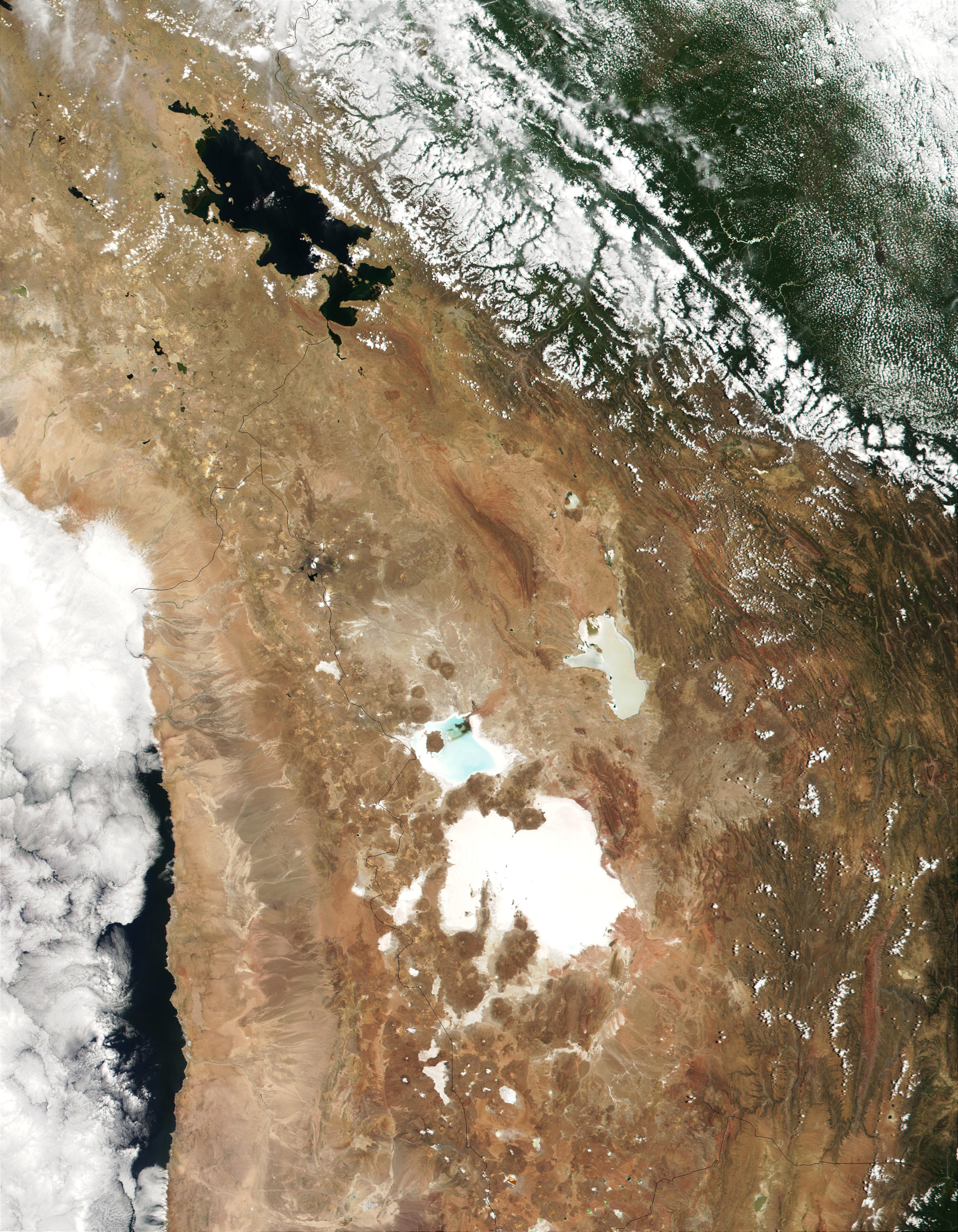 MODIS true-color image from November 4, 2001 showing the southern Altiplano including Lake Titicaca, the Salar de Uyuni, and the Salar de Coipasa.